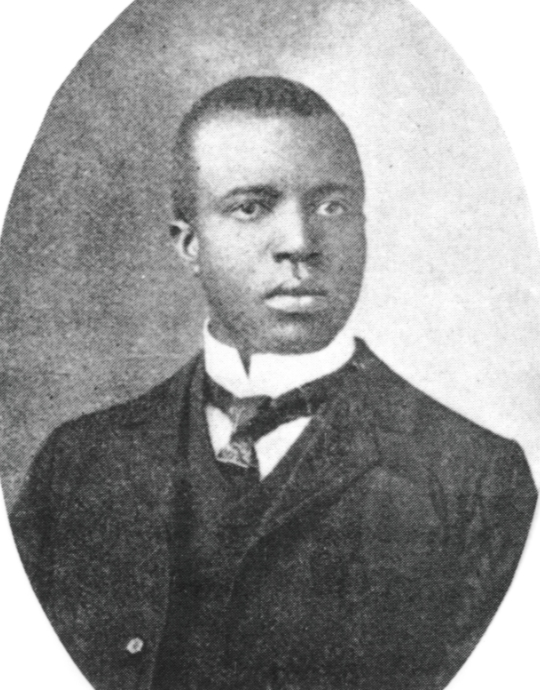 Photograph of composer Scott Joplin around age 35 (c. 1903).